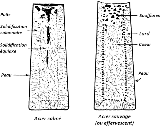 Casting ingot defects. Comparison between killed steel and rimmed steel.